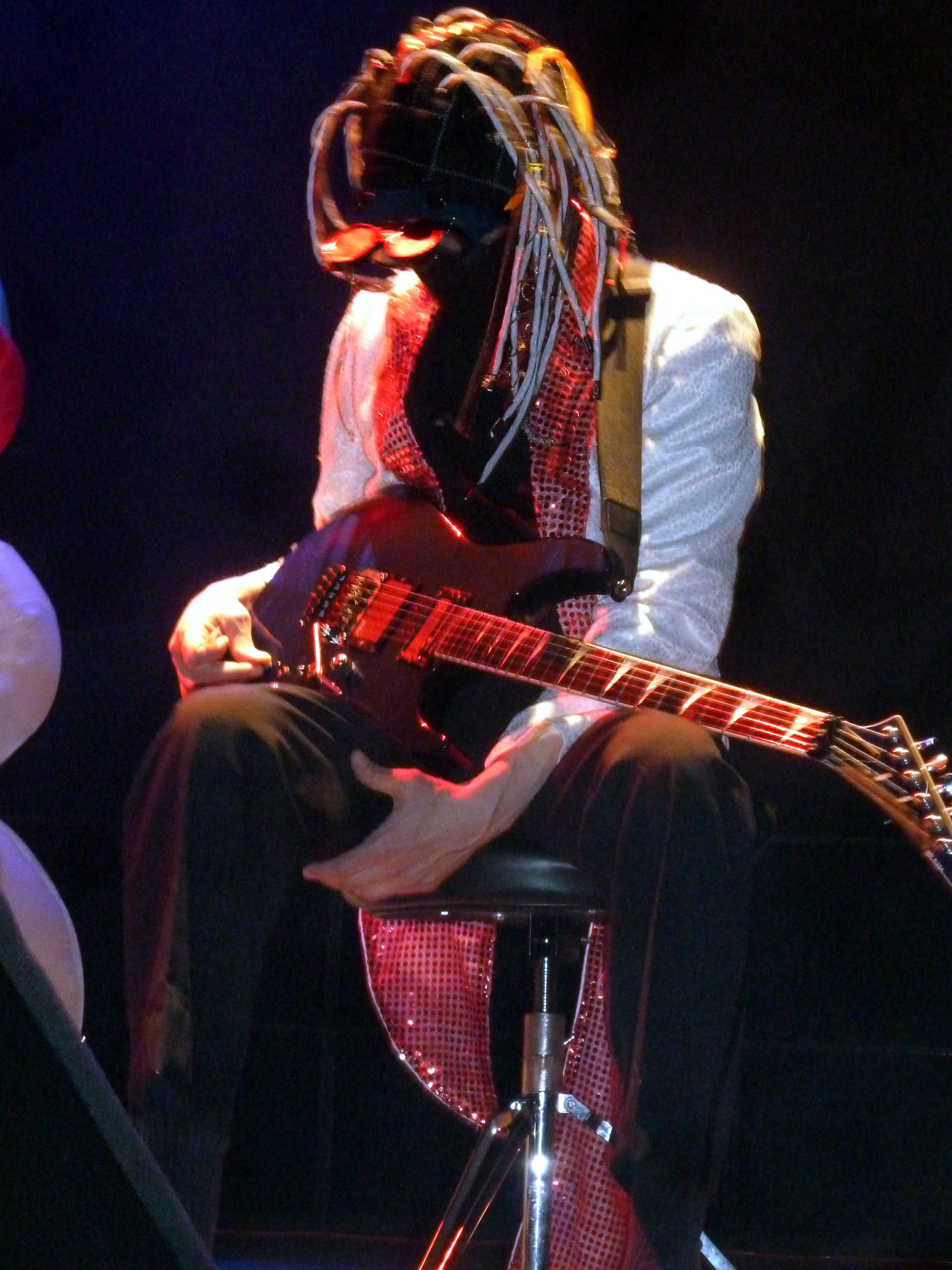 The Residents 2013